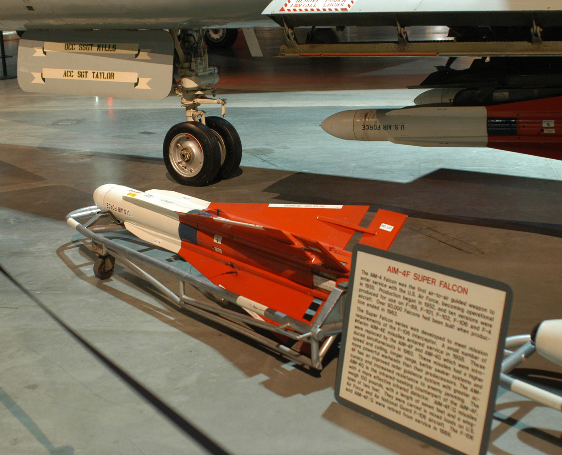 DAYTON, Ohio - Hughes AIM-4F Super Falcon Air-to-Air Missile on display at the National Museum of the U.S. Air Force. (U.S. Air Force photo)